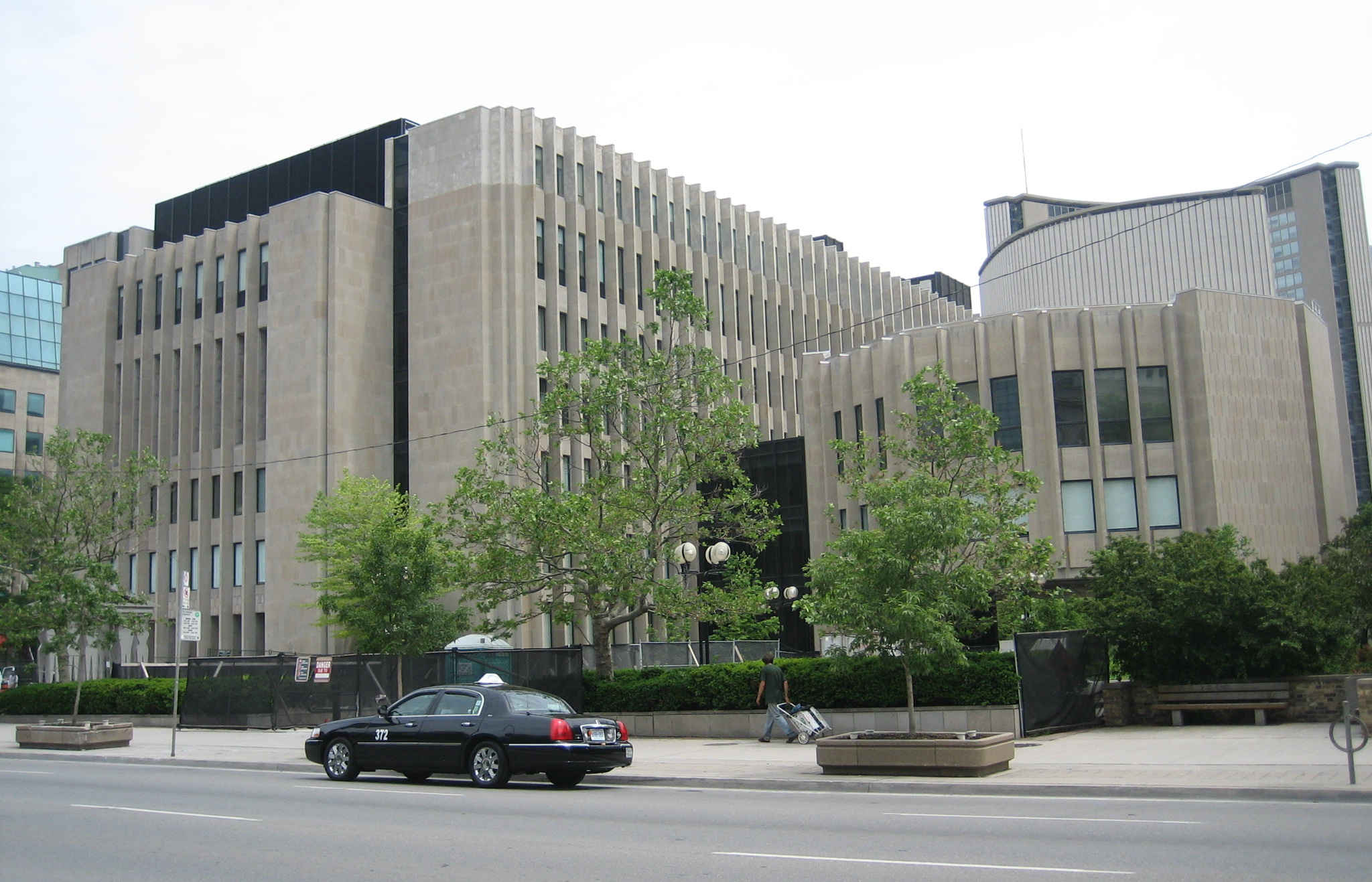 Toronto Courthouse